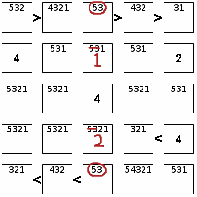 First step to solve Wikipedia/GPL 1.2 file :Image:Futoshiki1.png